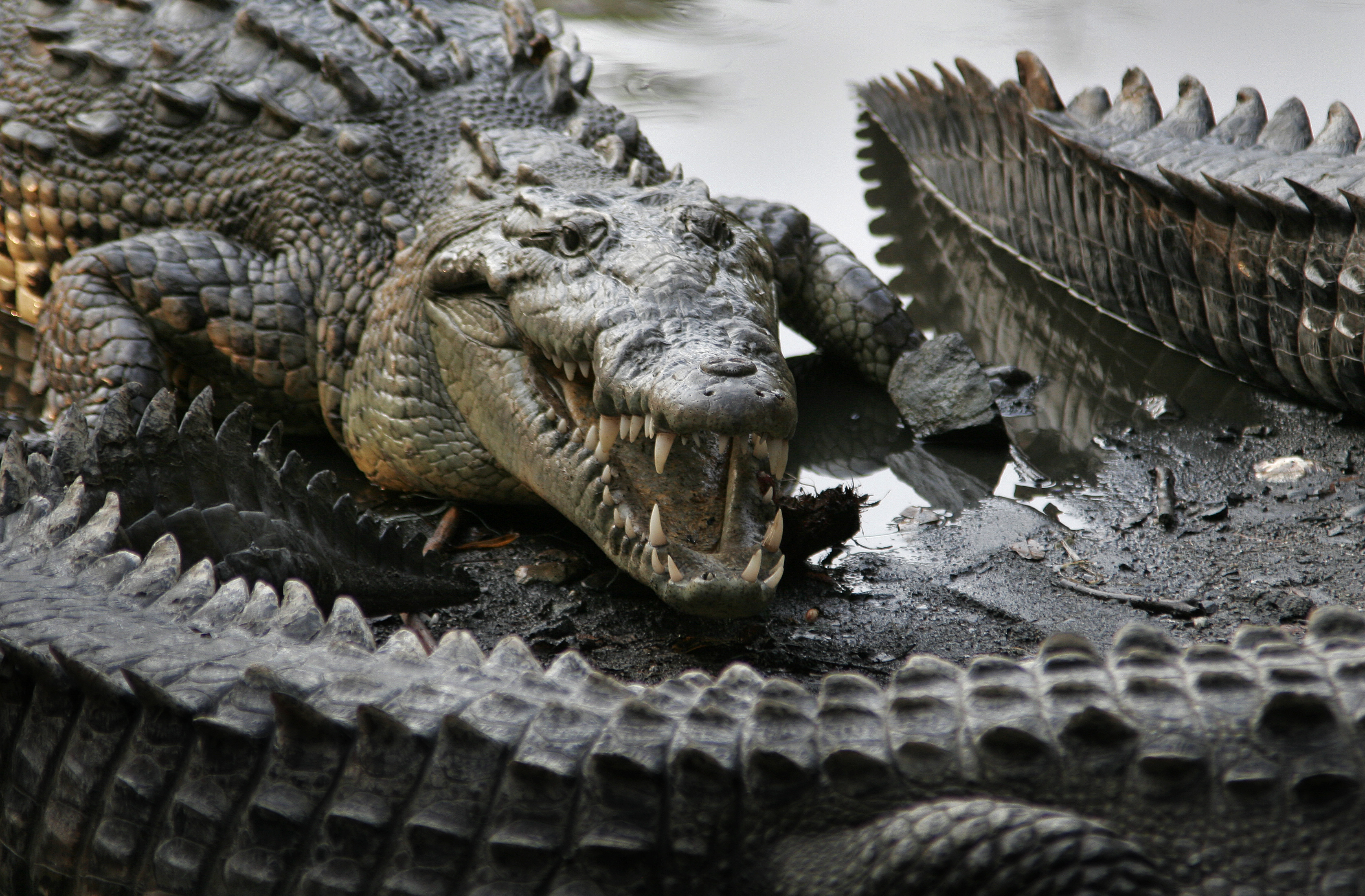 American crocodile, taken at La Manzanilla, Jalisco, Mexico